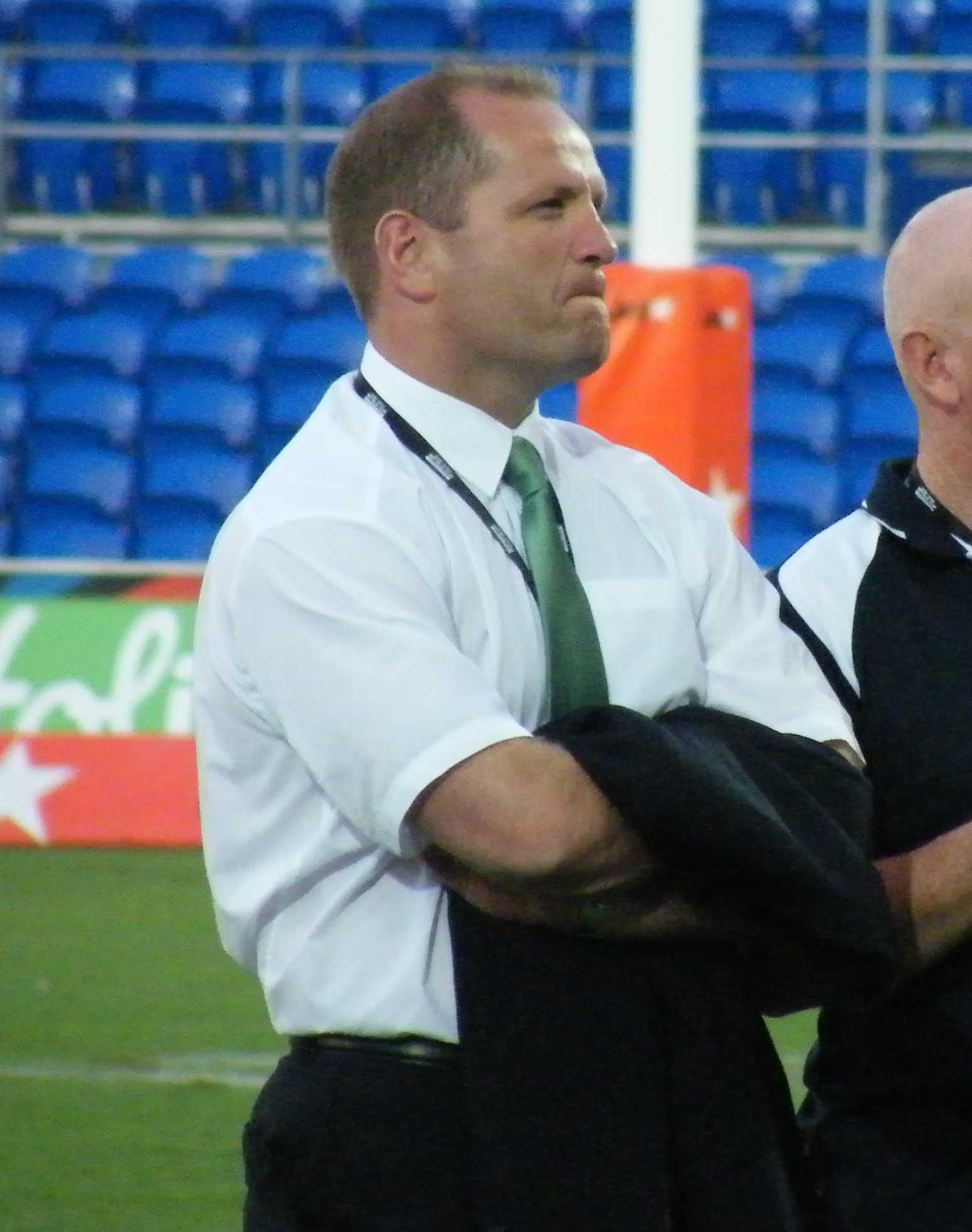 RLWC - Fiji v Ireland, Gold Coast 2008. Former GB international Terry O'Connor